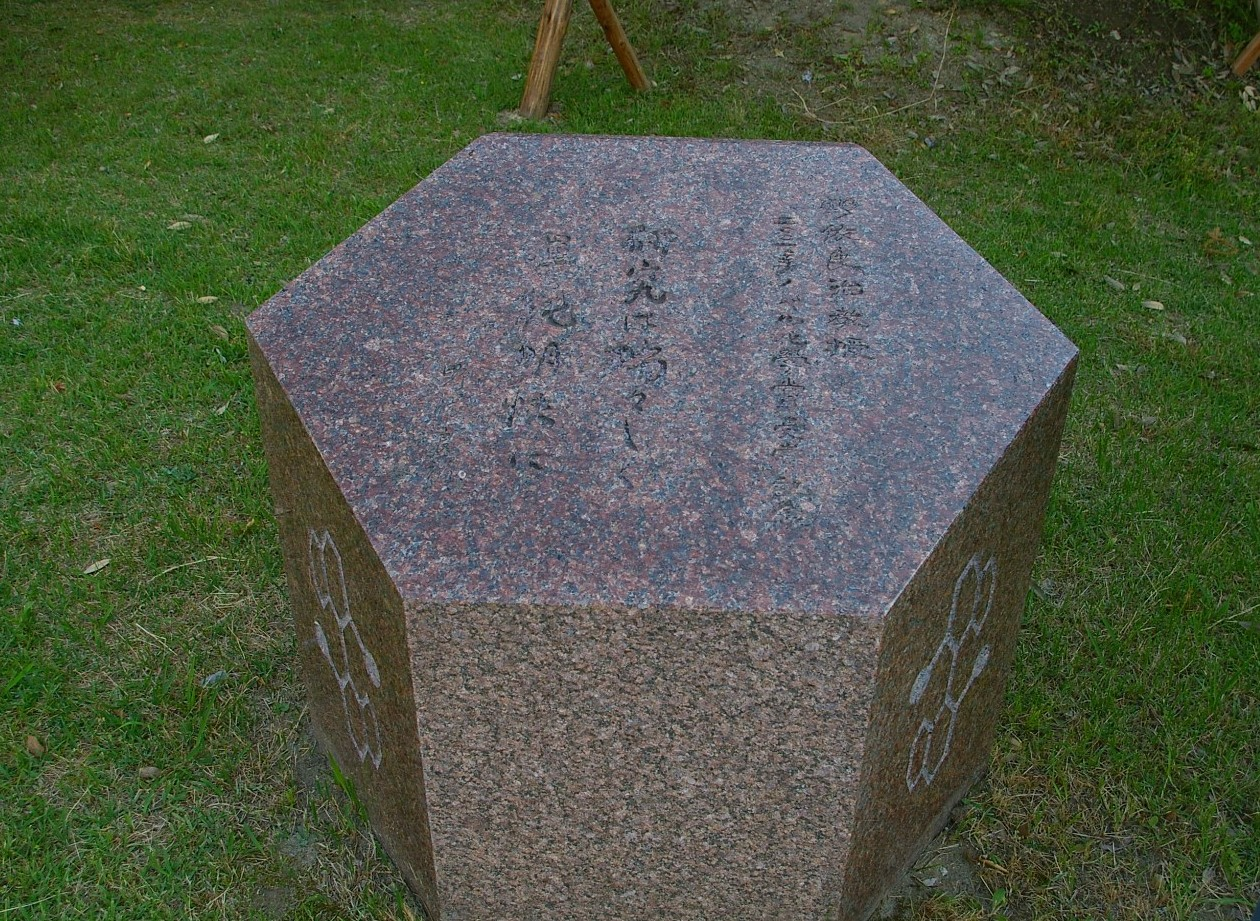 The monument of rewarding Ryoji Noyori's winning of the Nobel Prize in Chemistry located in Nagoya University Higashiyama campus. It is recorded Prof. Ryoji Noyori's advice for young scientists that Study with a fresh and straightforward mind ! in Japanese.